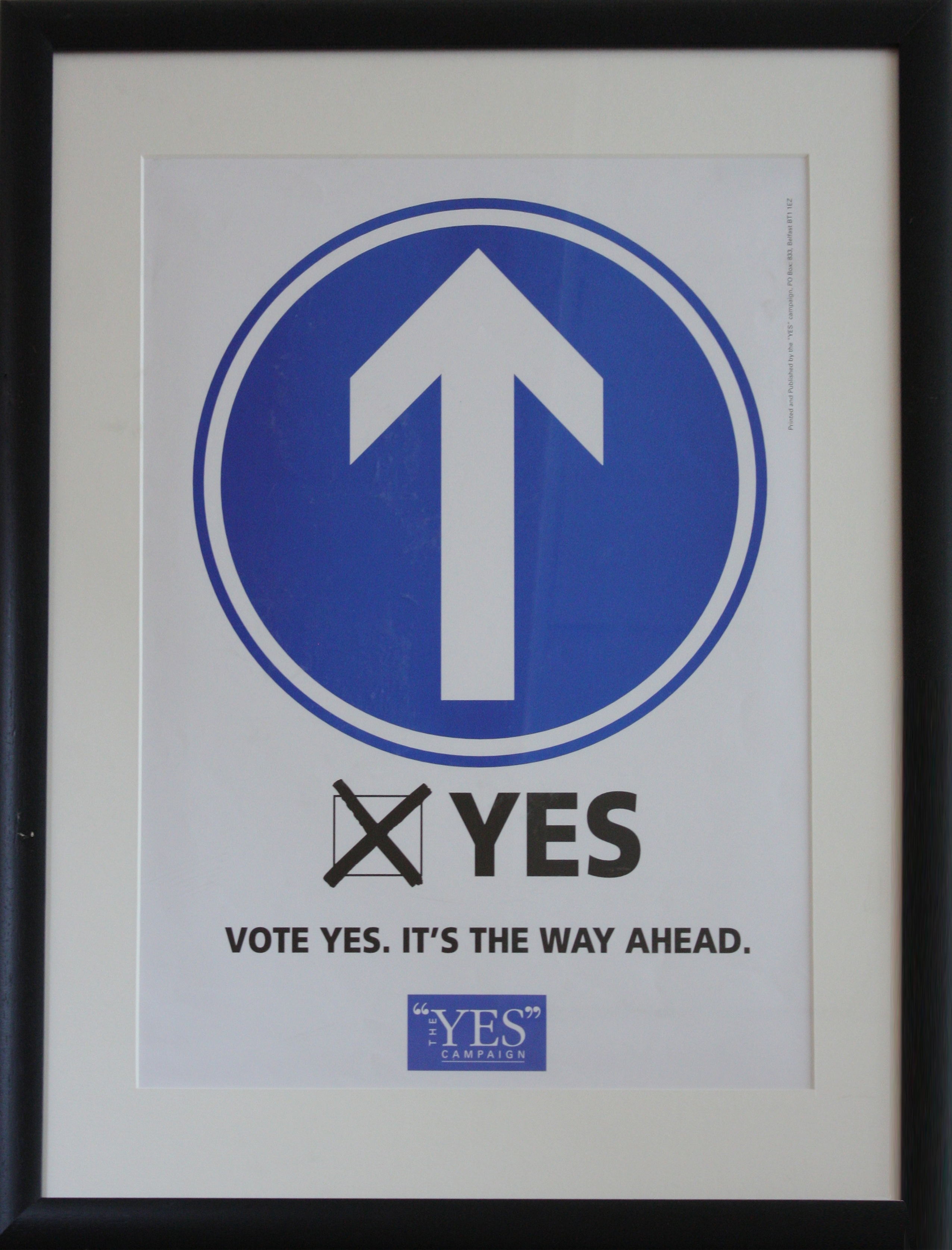 "Vote Yes, It's the way Ahead" (Yes Campaign (for the Belfast Agreement), 1998), Troubled Images Exhibition, Linen Hall Library, Donegall Square North, Belfast, Northern Ireland, August 2010